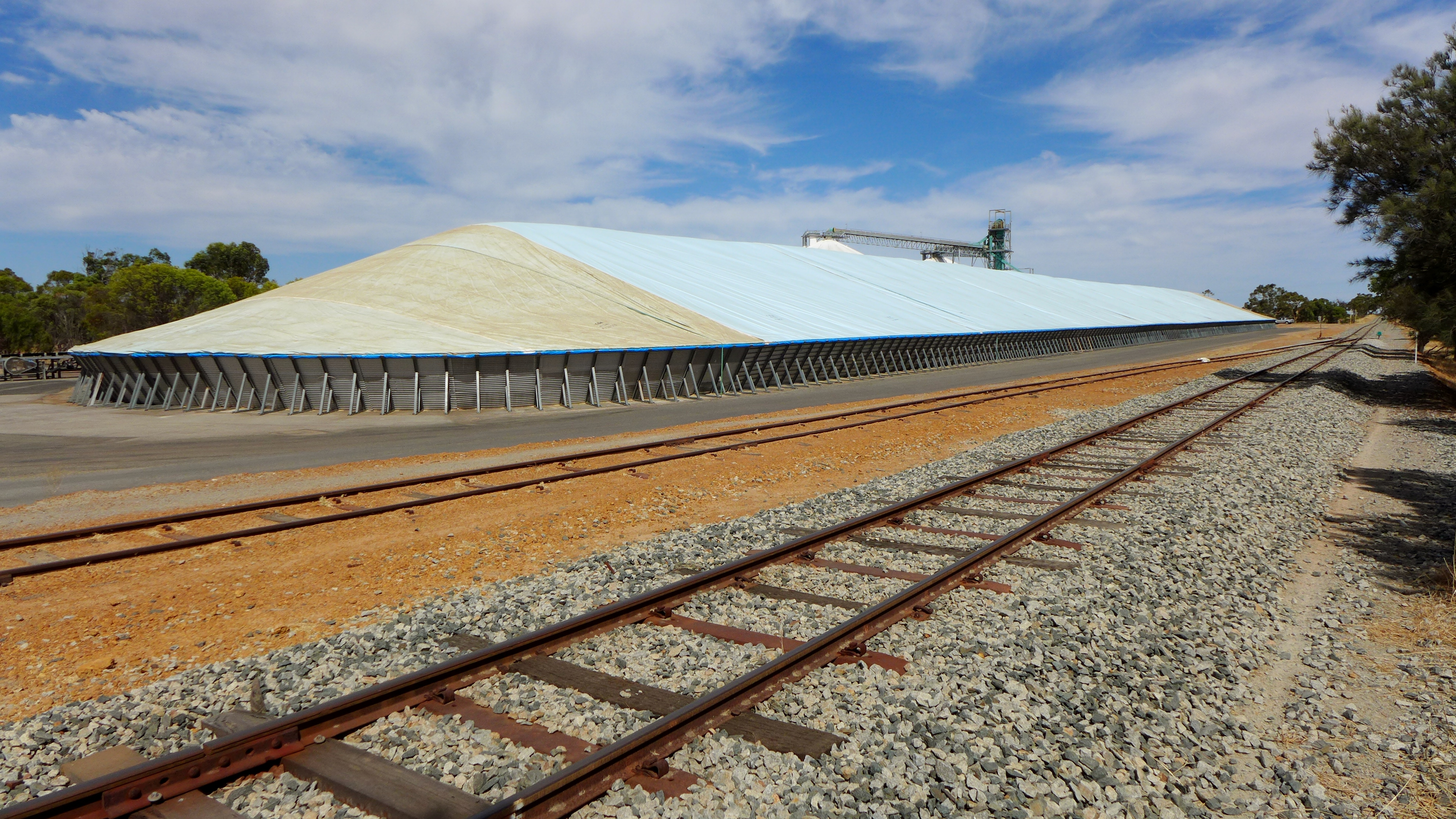 View of the Calingiri railway station and grain receival point, Western Australia.